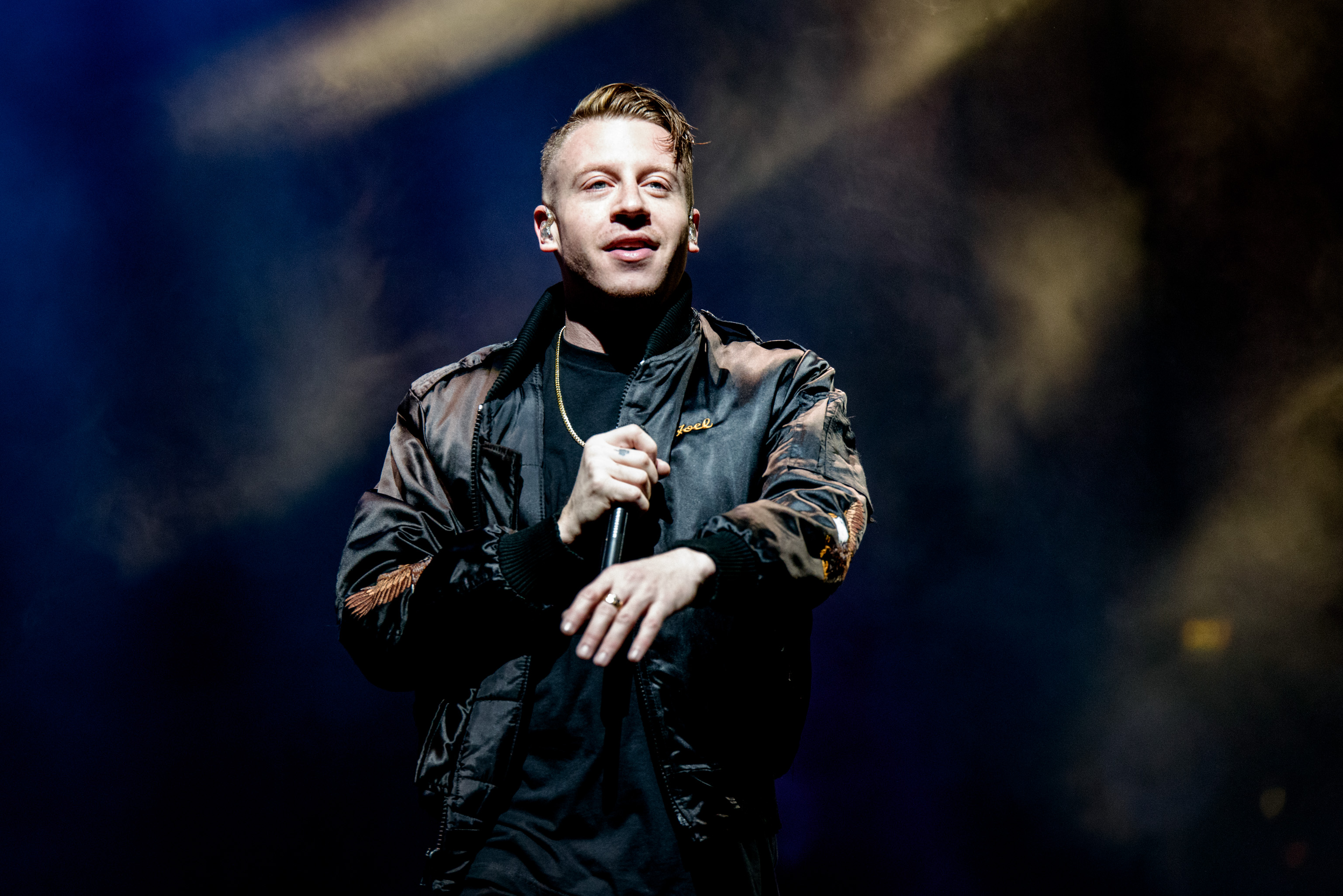 Macklemore & Ryan Lewis Live @ 2016